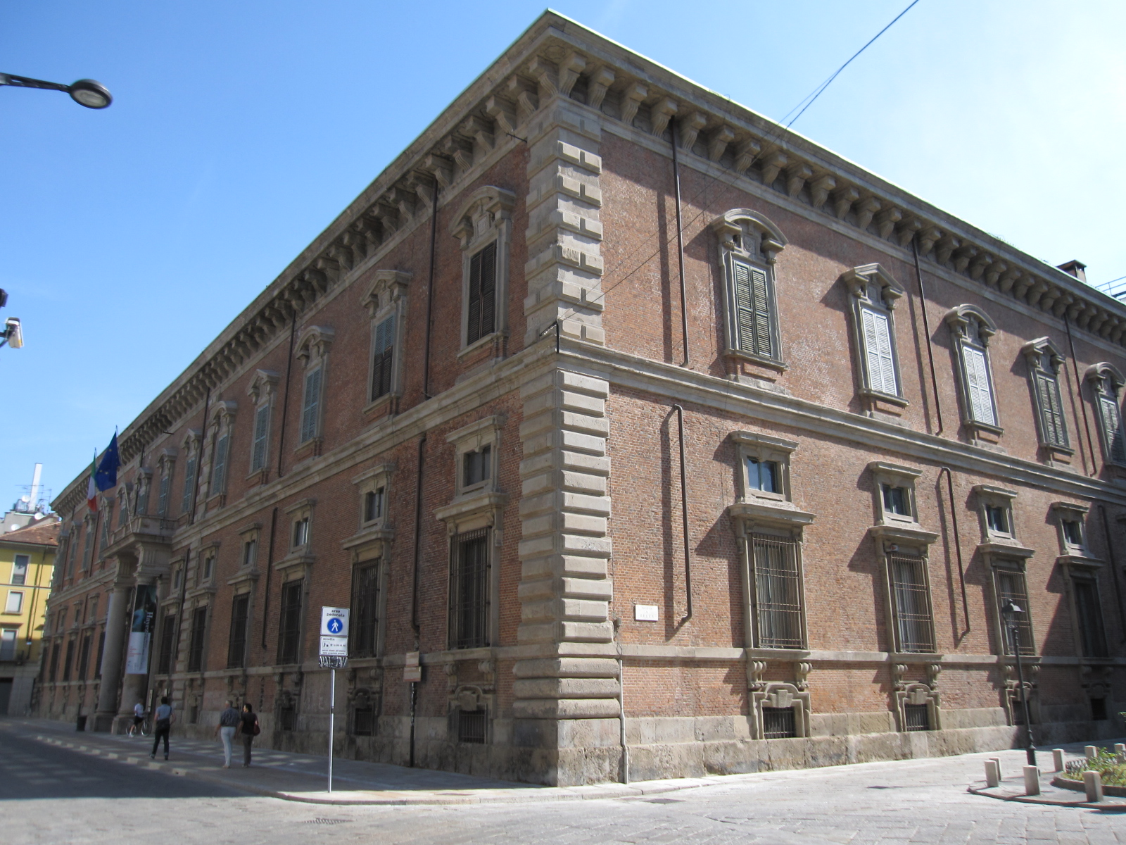 The Palazzo di Brera, which houses the Pinacoteca di Brera.